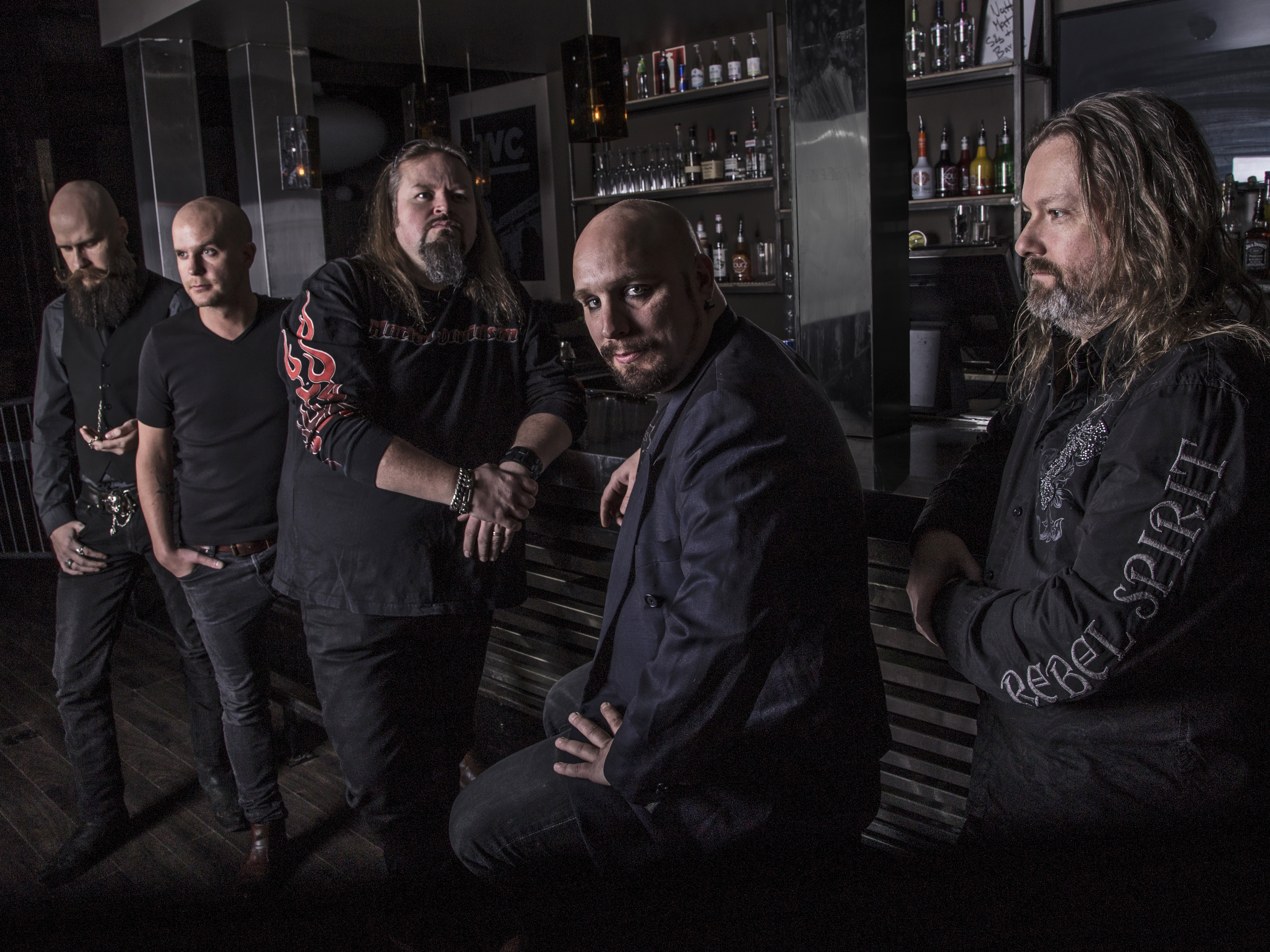 Bandphoto